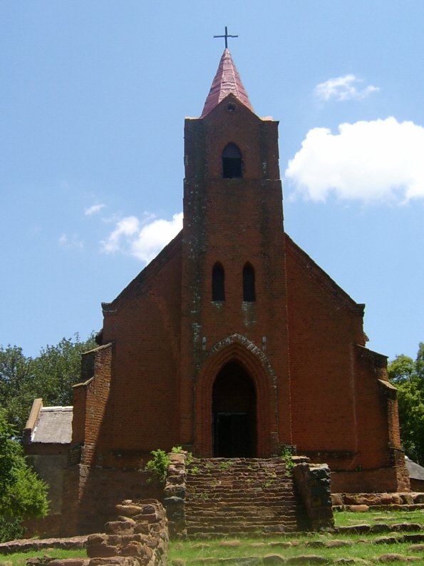 Mission church at Botshabelo near Middelburg, Mpumalanga, South Africa